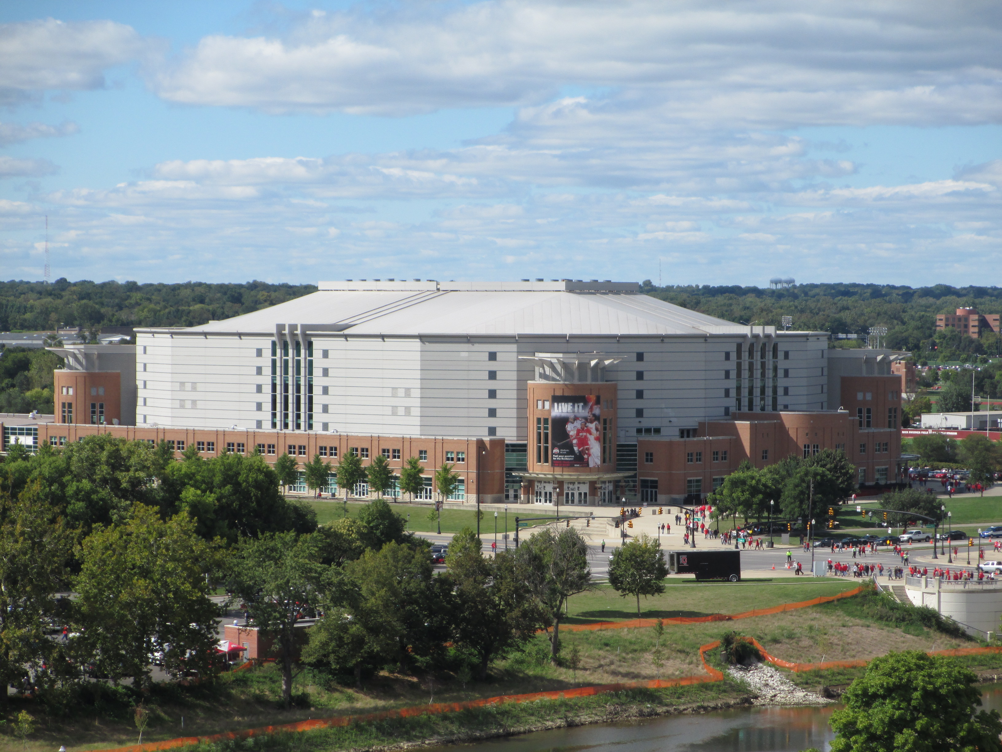 View of the Jerome Shottenstein Center on the campus of The Ohio State University in Columbus, Ohio, USA, as seen from Ohio Stadium